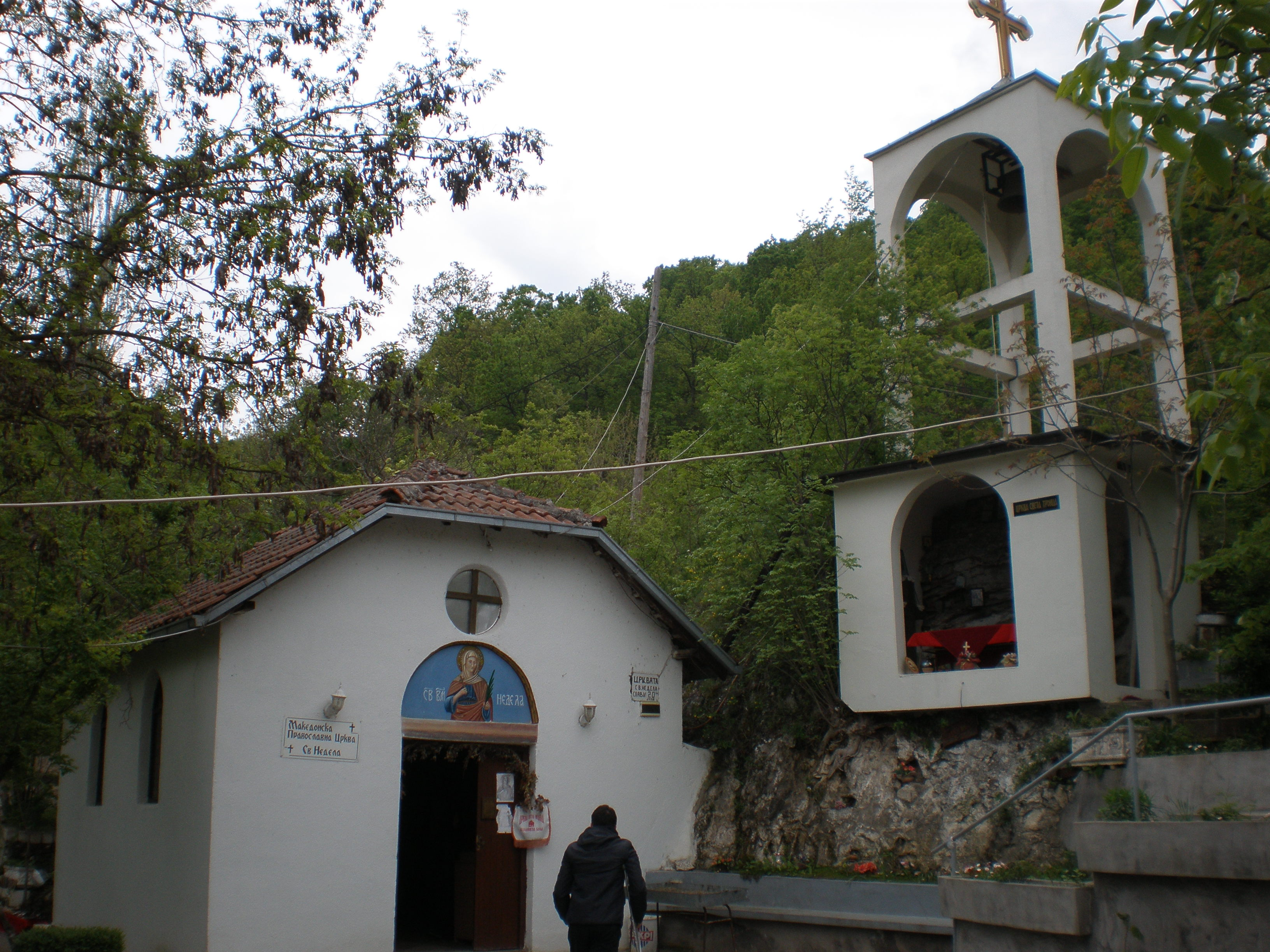 Church Sv.Nedela in Katlanovo, Macedonia